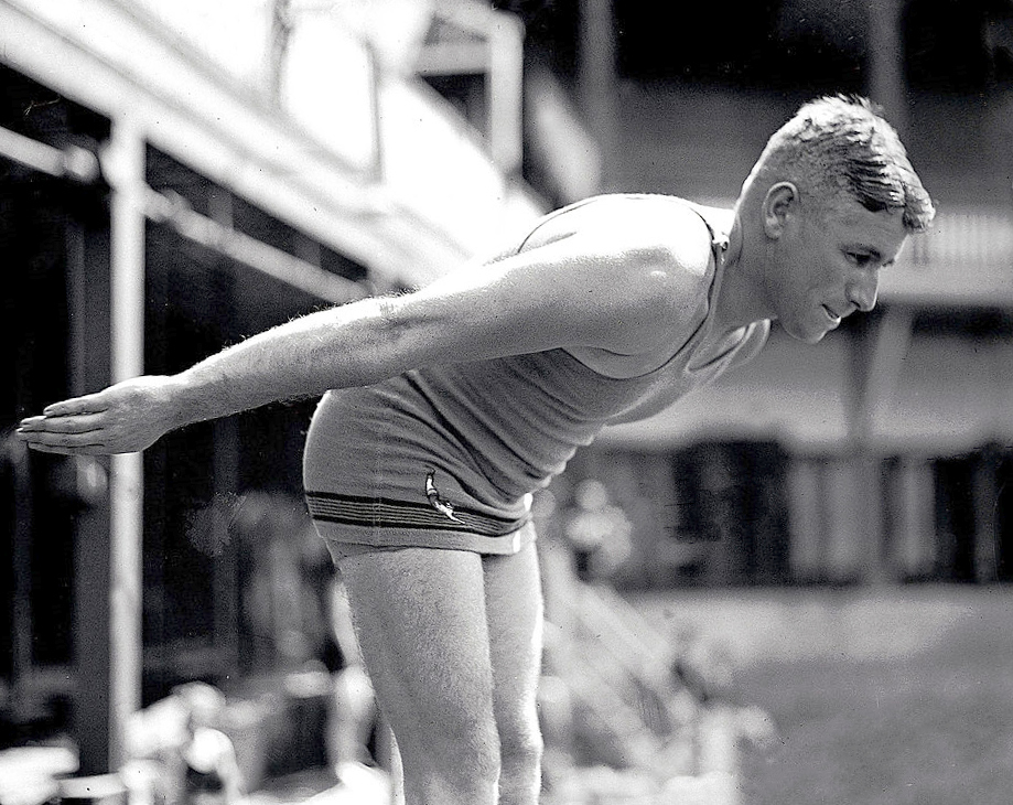 Australian diver Dick Eve AKA Richmond Eve who was a gold medal winner in the tower event at the Paris Olympics in 1924 at training in Sydney in the 1920s